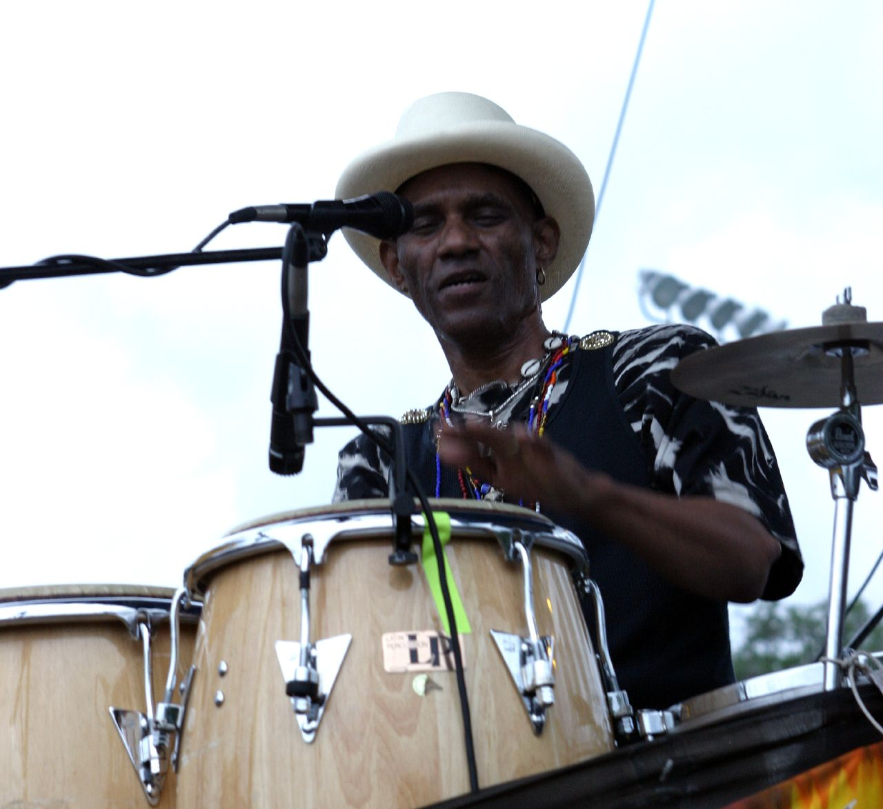 Cyril Neville of The Neville Brothers performing live on June 1, 2007 in Savannah, GA.